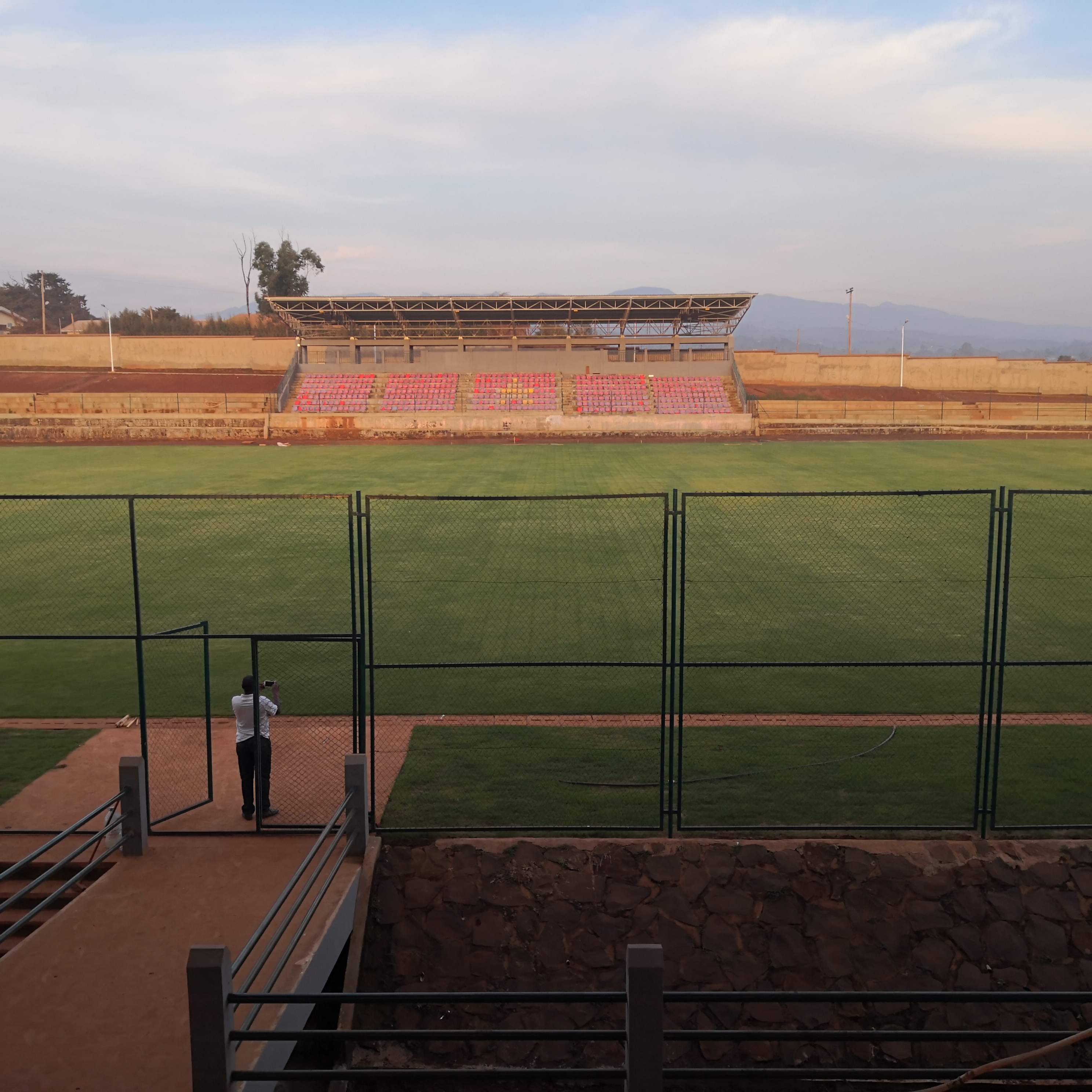 Mbouda Municipal Stadium in november 2019.